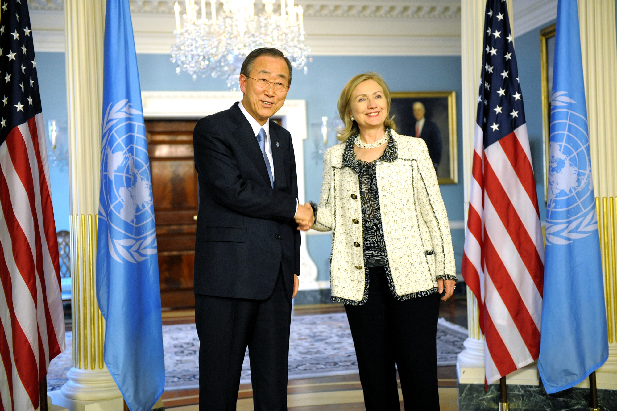 U.S. Secretary of State Hillary Rodham Clinton holds a bilateral meeting with Secretary-General of the United Nations, Ban Ki-Moon, at the U.S. Department of State in Washington, D.C., on April 7, 2011. [State Department photo/ Public Domain]